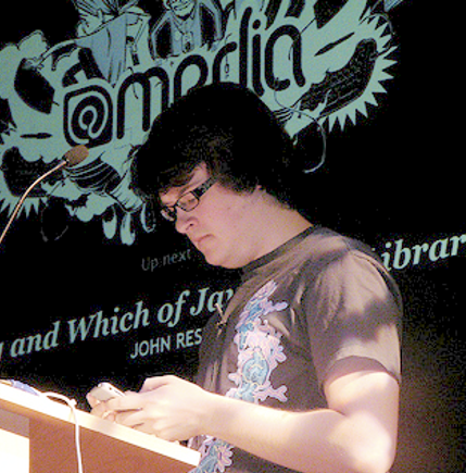 John Resig presenting an overview of JavaScript libraries at @Media Conference 2008.